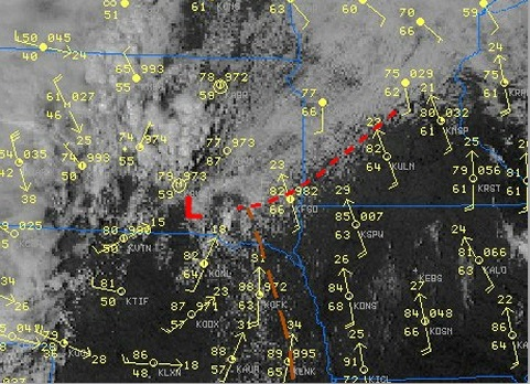 Satellite view in visible range of convection along a Dry line (yellow line) and surface station data showing temperature around 86F in the whole sector but dew points in the 60's east of it and in the 50' West of it.